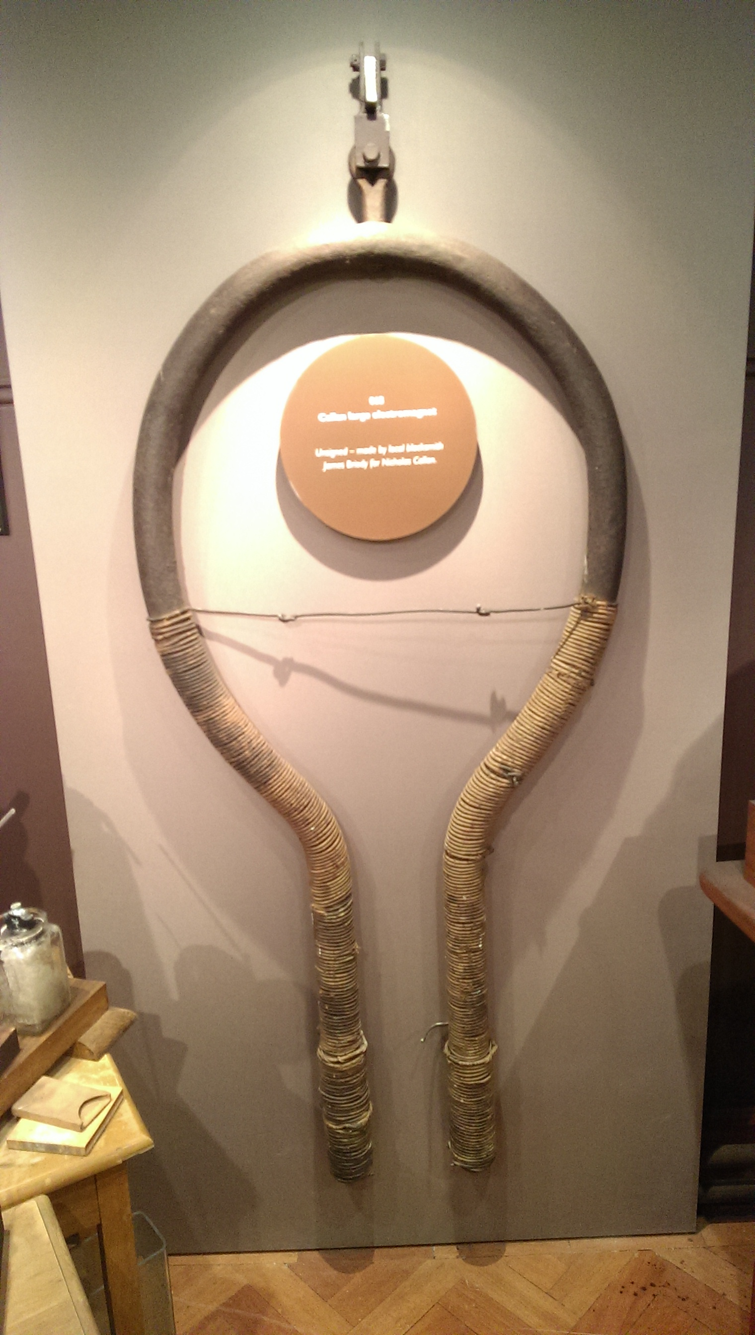 The first crude induction coil, also the first transformer, built by Nicholas Callan at Maynooth College, Ireland, in 1836. It consisted of a horseshoe-shaped piece of iron with two wire windings on it. When Callan applied a voltage pulse to the smaller primary winding, it induced a larger voltage pulse in the longer secondary winding. Part of the collection of the National Science Museum of Maynooth, Ireland.